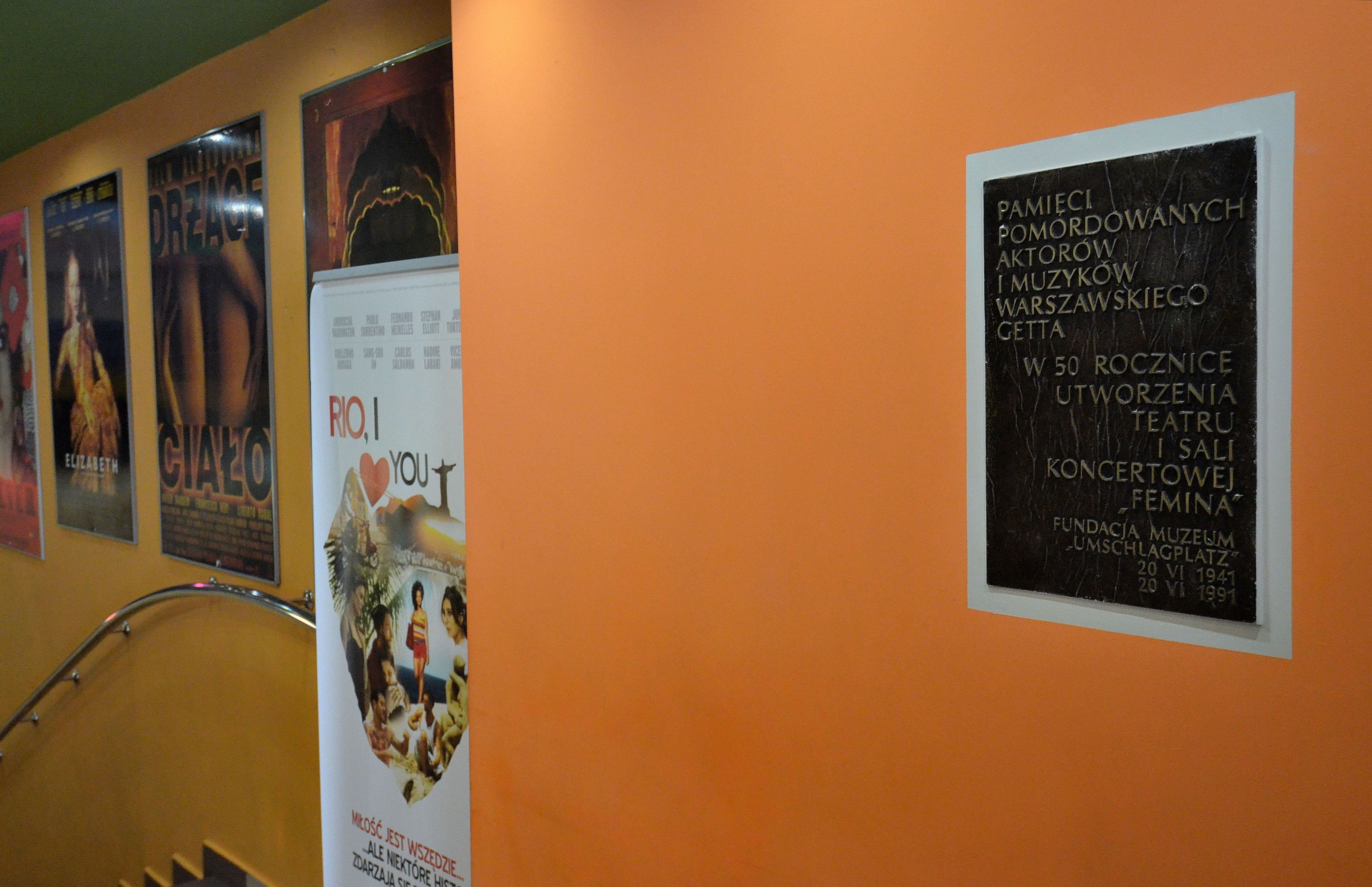 Plaque in memory of the artists of the Warsaw Ghetto in the hall of Femina Cinema in Warsaw